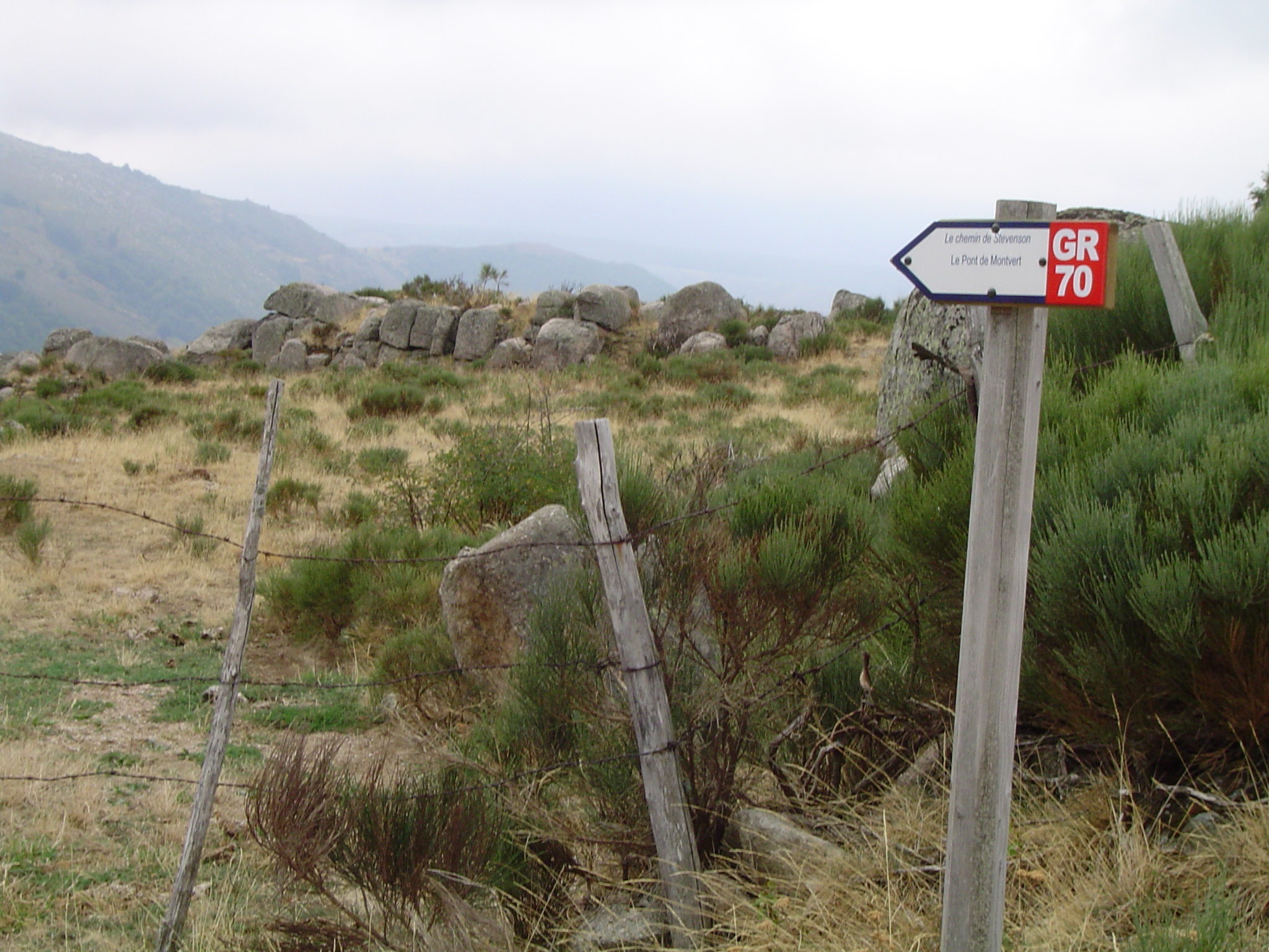 Le chemin de Stevenson descend du Mont Lozère vers Pont-de-Montvert.